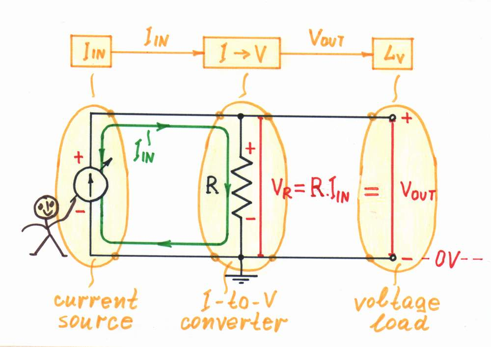 Resistor acting as a current-to-voltage converter